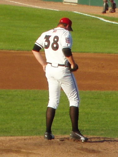 Andrew Sisco of the Lansing Lugnuts on the mound